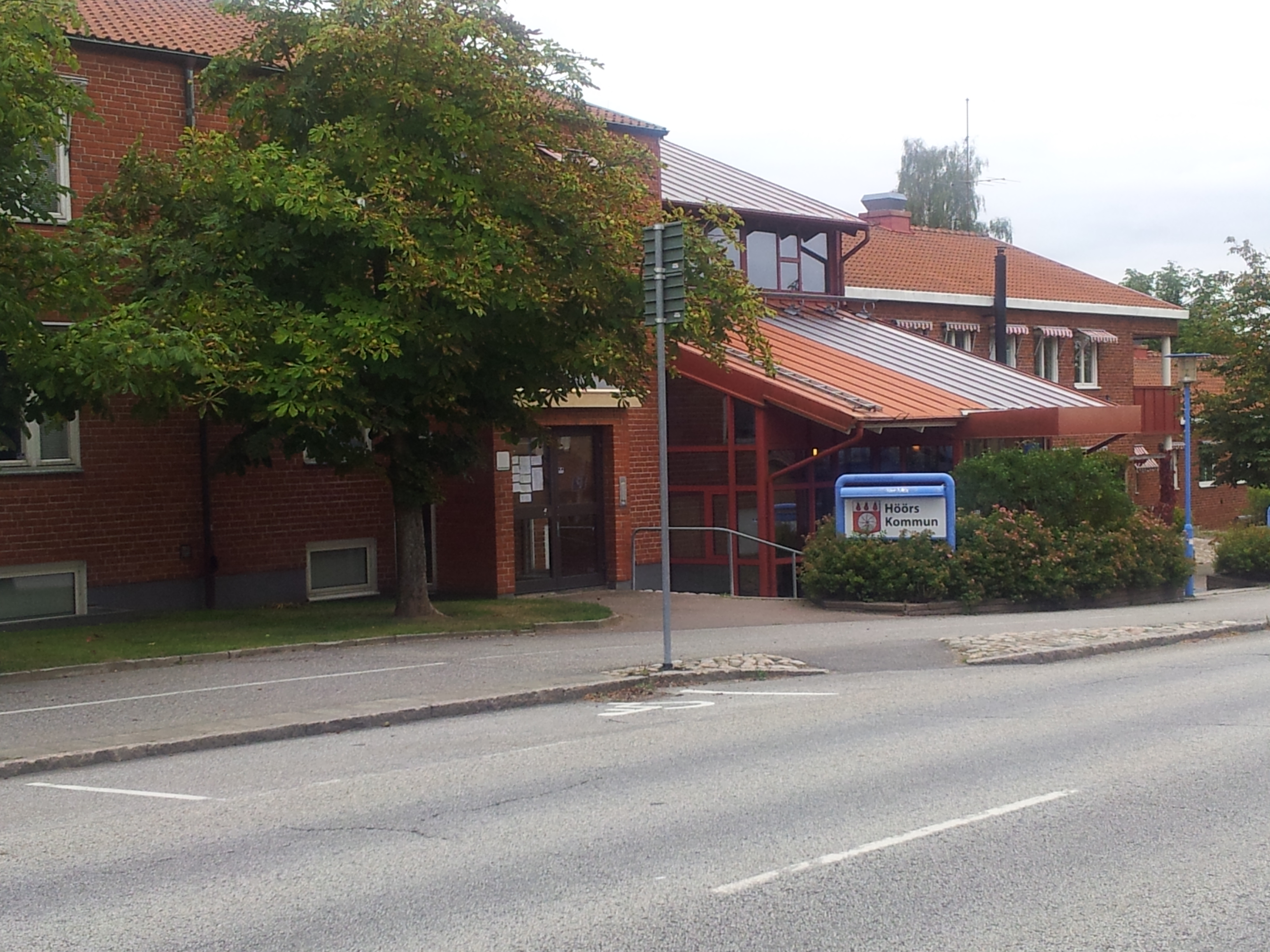 Höör municipal building